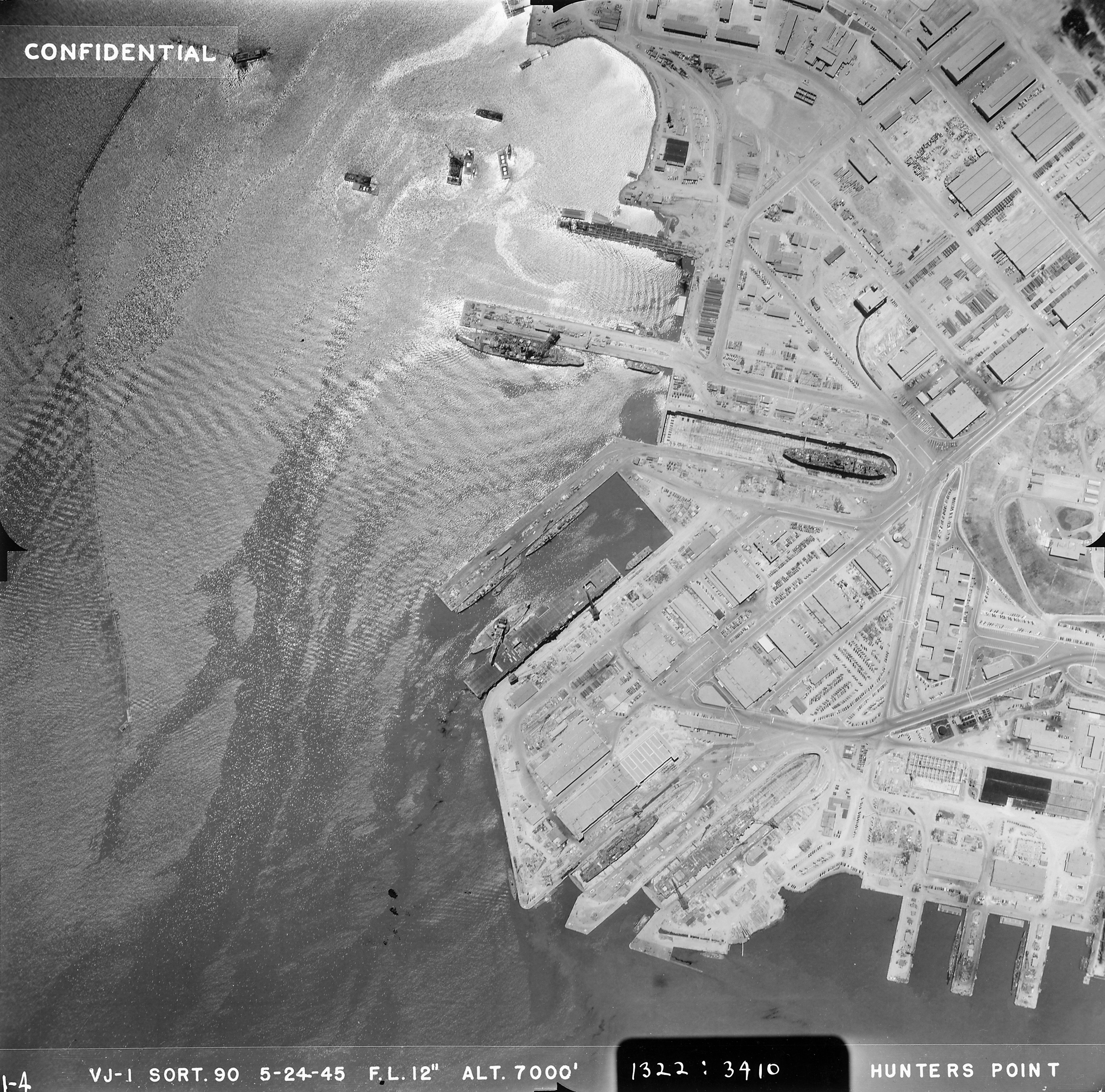 An aerial photograph of the San Francisco Naval Shipyard at Hunters' Point, San Francisco, California (USA), taken by a plane from the U.S. Navy photographic squadron VJ-1 from an altitude of 2.300 m on 24 May 1945. The aircraft carrier USS Intrepid (CV-11) is visible in the center, with the Crane Ship No. 1 (ex-USS Kearsarge (BB-5)) on her port side. The light aircraft carrier USS Cabot (CVL-28) is visible in the drydock in the lower half of the picture. The battleship USS Pennsylvania (BB-38) is visible at the pier in the upper part of the picture. USS Drum (SS-228), one of two submarines, is visible bottom right.